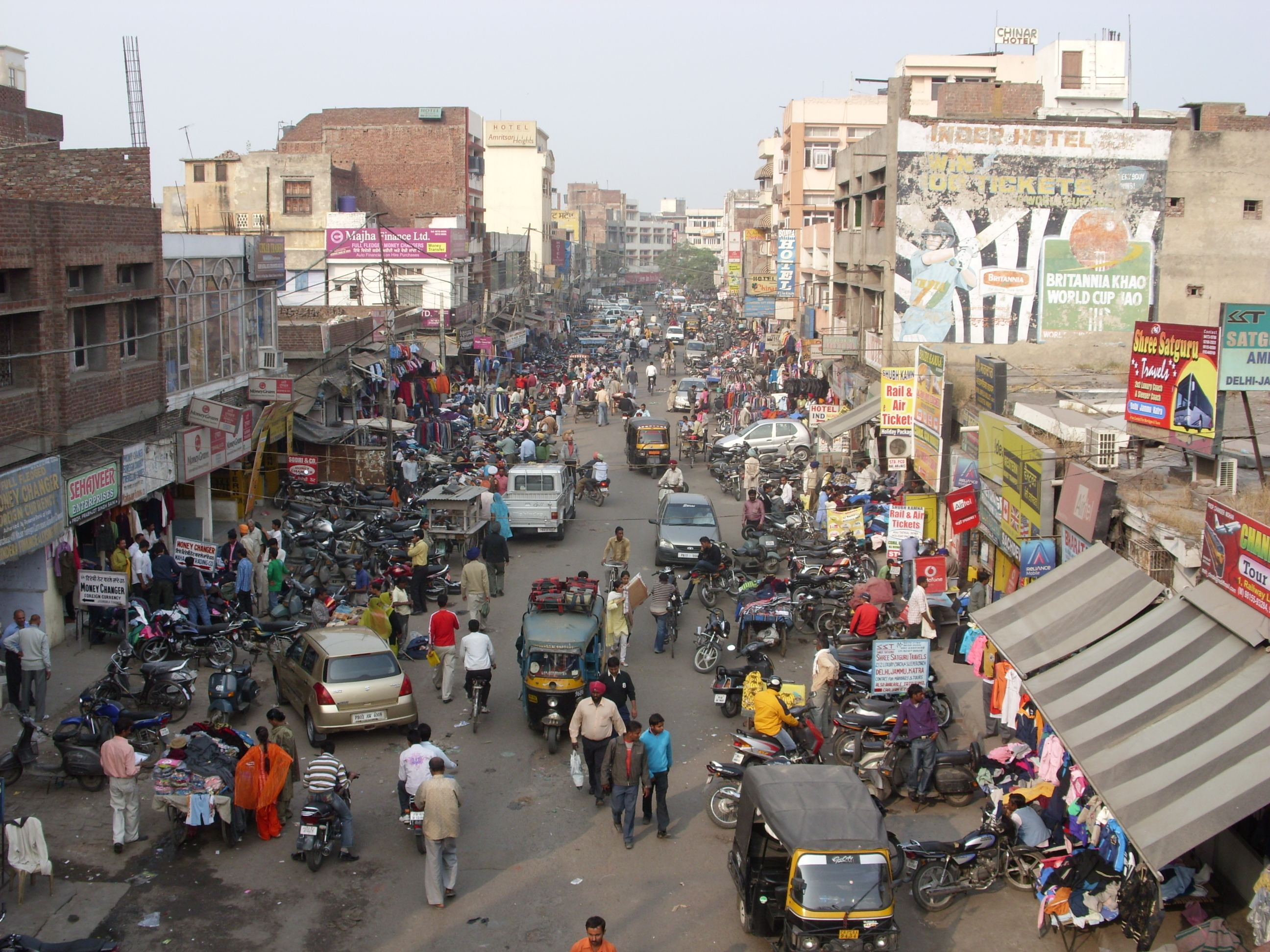 Street Scene in Amritsar, Punjab, India.